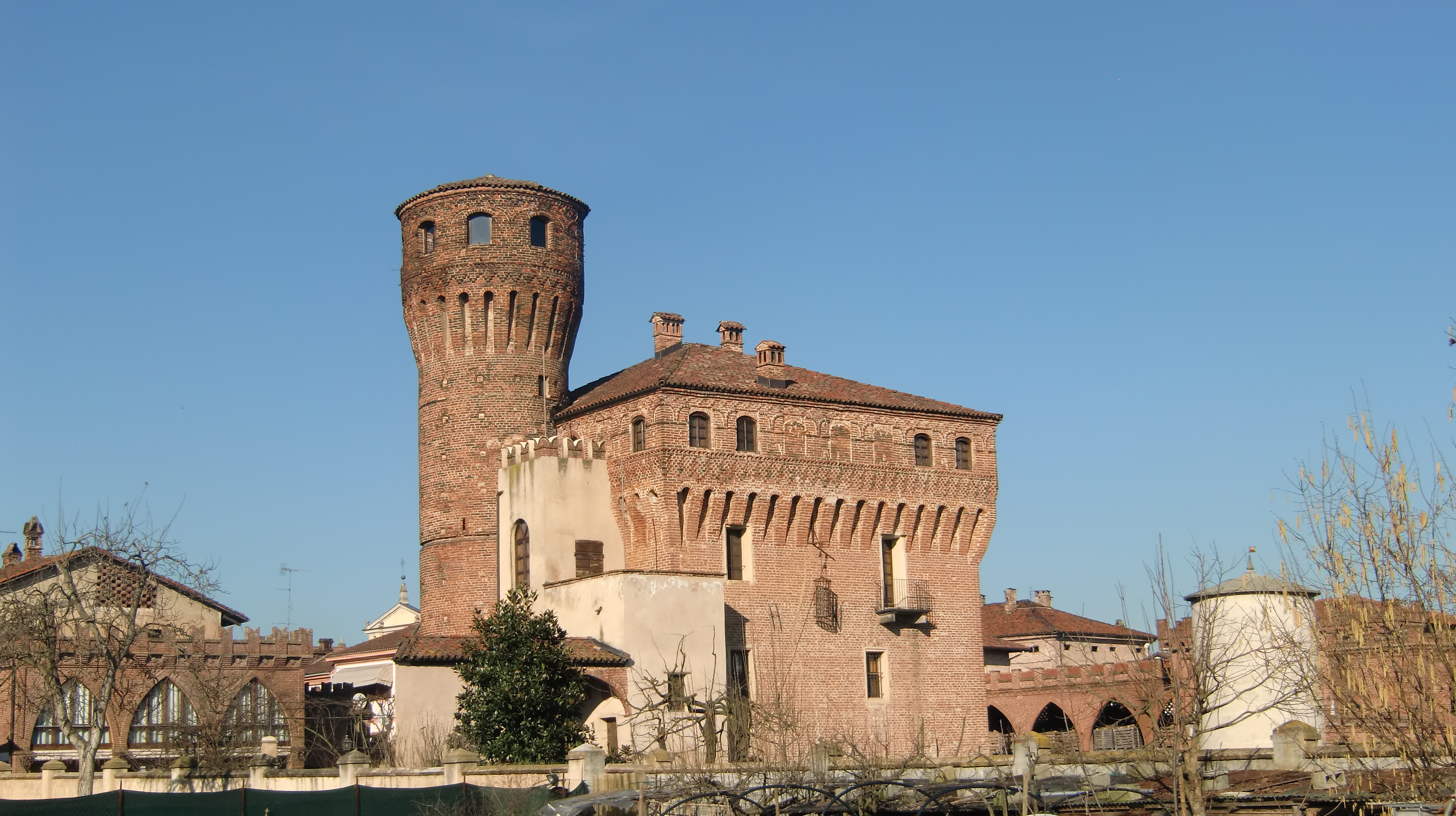 San Genuario (village of the municipality of Crescentino), San Genuario castle, XV century